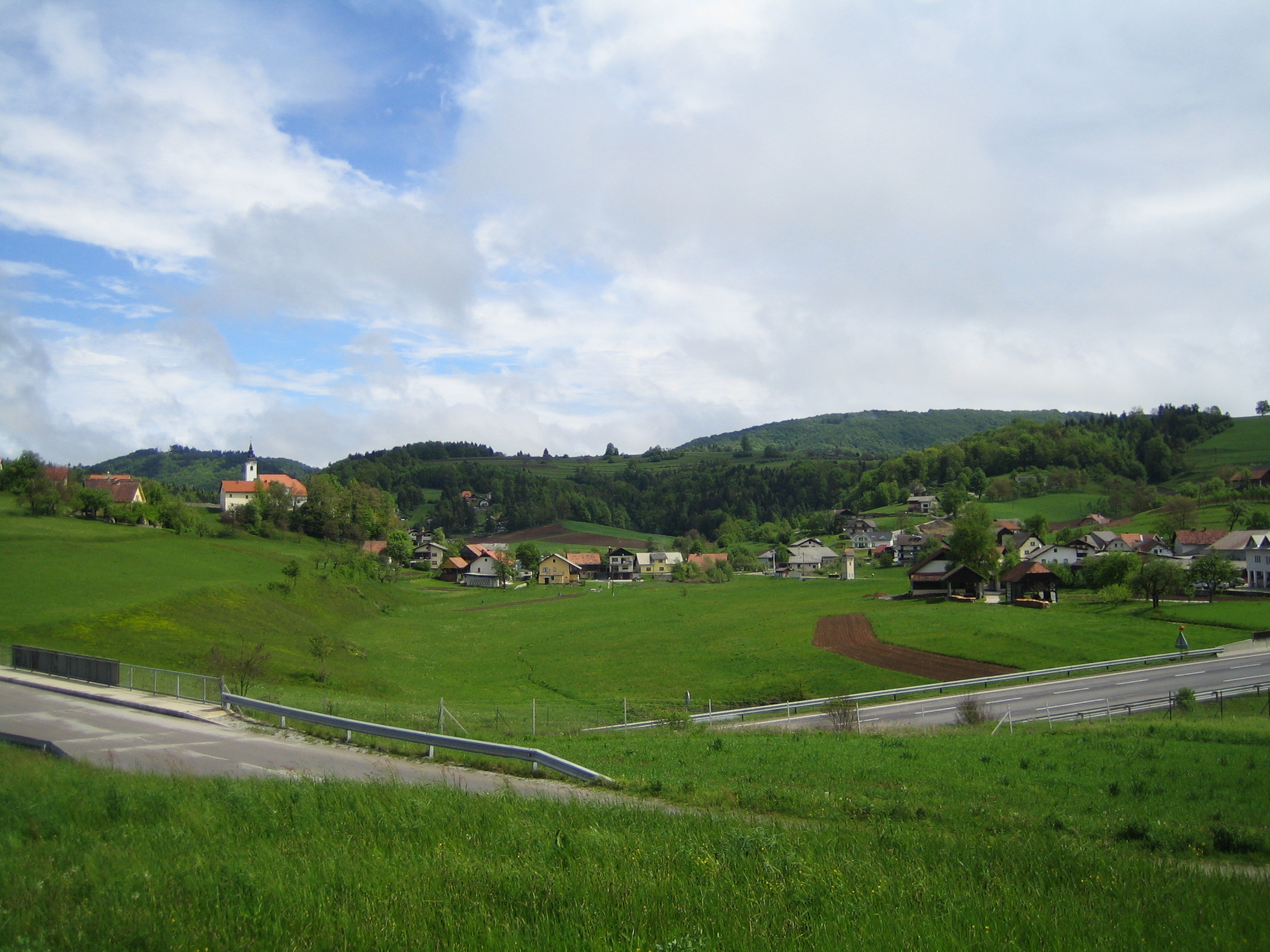 Photography of Polica, Grosuplje, Slovenia